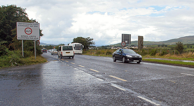 The Border The UK/Eire border not much to look at now, note the change in road surfacing and markings. One of the Official border crossing points during the Troubles it was the site of a heavily fortified army check point. Taking a picture from here during the Troubles would have certainly got you arrested and possibly shot.